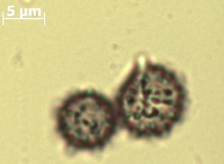 Spore of the fungus Russula foetens Fr.